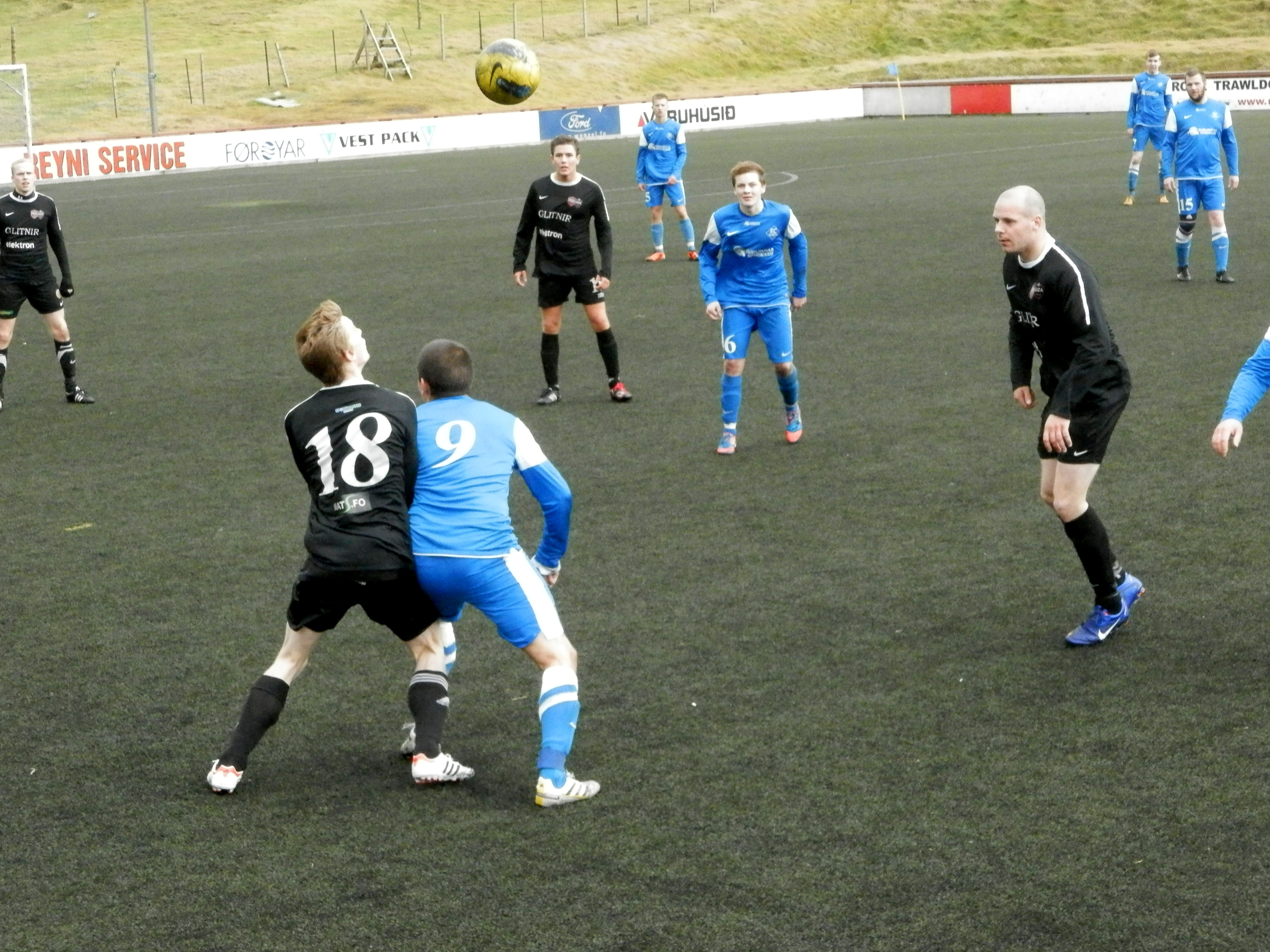 Football match in the men's third league of the Faroe Islands, called 2. deild between FC Suðuroy and Giza/Hoyvík. Before 2012 Giza/Hoyvík were two seperate clubs: FF Giza and FC Hoyvík, but in 2012 they merged into Giza/Hoyvík. They play their home matches in Gundadalur in Tórshavn (Niðari vøllur, the lower field). This match ended 2-2. Giza/Hoyvík ended as number three in the division, they were not promoted to 1. deild, they had the same score as TB Tvøroyri, but TB had better goal score and got promoted.